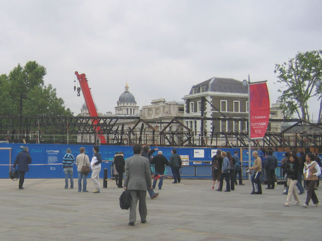 The Cutty Sark, burnt out The Cutty Sark caught fire (allegedly by arson) on the morning of 21 May 2007; this photo was taken at 7pm just as the fire crews were leaving after putting the fire out. The ship is now undergoing restoration (see Cutty_Sark). Lottery funding has been withdrawn so the completion date is uncertain but unlikely to be before 2011.